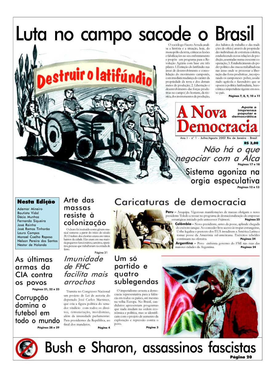 Issue #1 and the newspaper's first layout (2002)